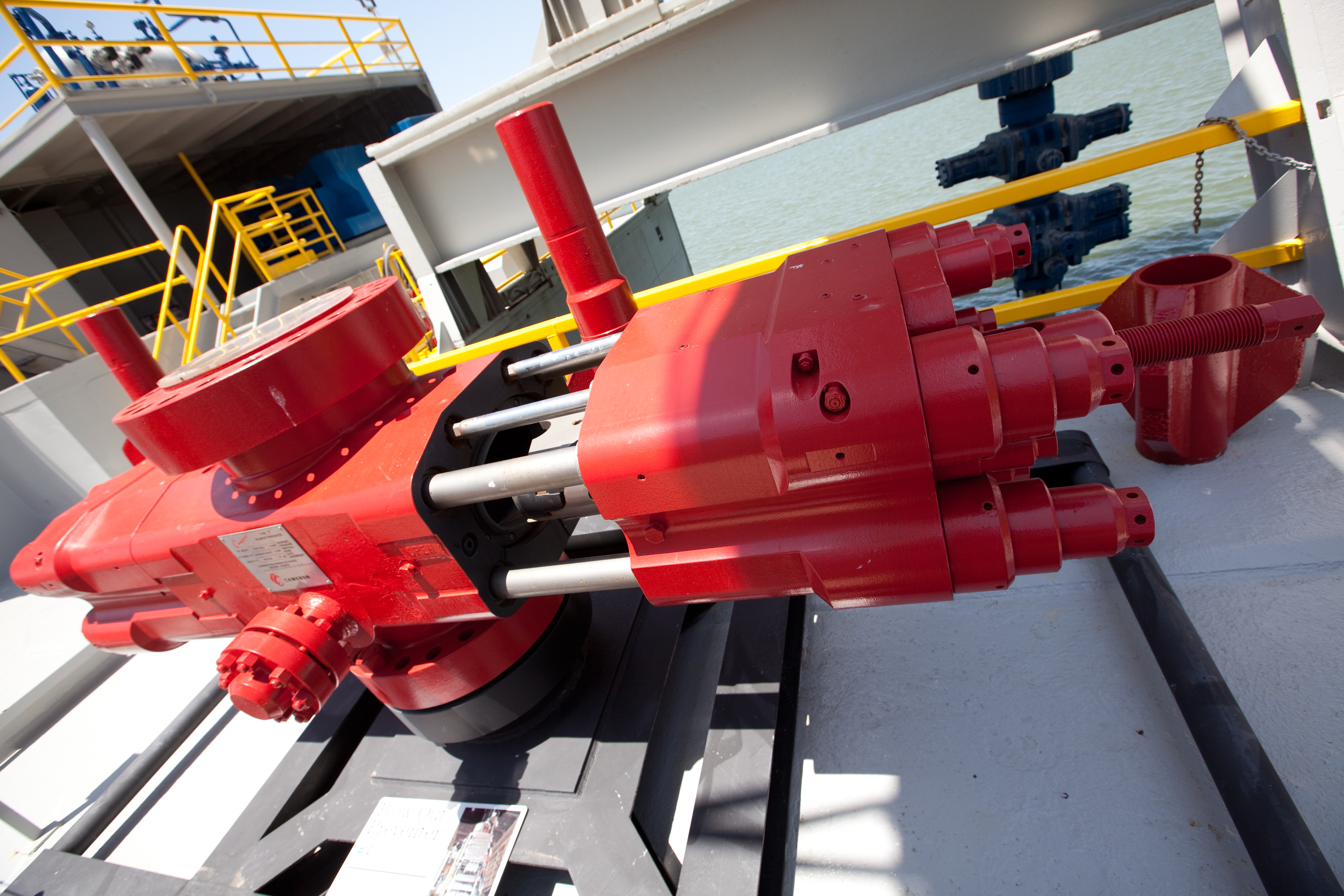 A Blow Out Preventer from the Ocean Star Offshore Drilling Rig and Museum in Galveston, Texas. "A blow out preventer, or BOP, is a vital part of drilling operations. Several of these valves are installed at the wellhead, and can be closed against an increase in pressure, which is called a "kick." On a shallow water jackup rig like the Ocean Star, the BOP would be installed over a large diameter casing at the surface, while on deep water floating rigs, the BOP sits on the ocean floor."